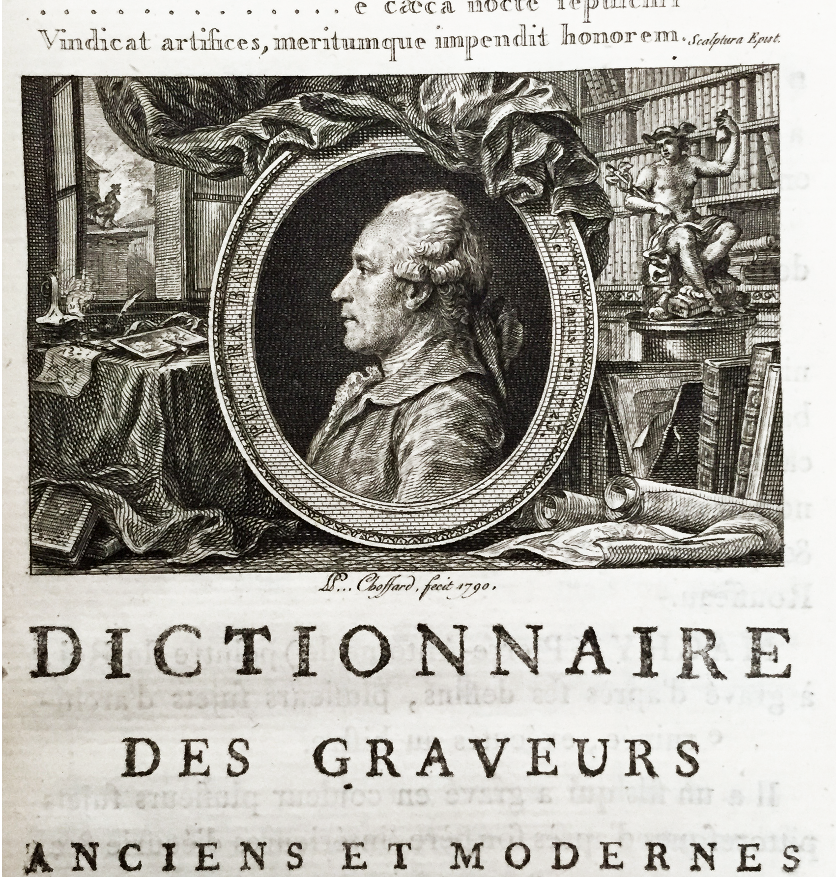 Portrait of Pierre basan, by Pierre-Philippe Choffard, 1790 (see signature)